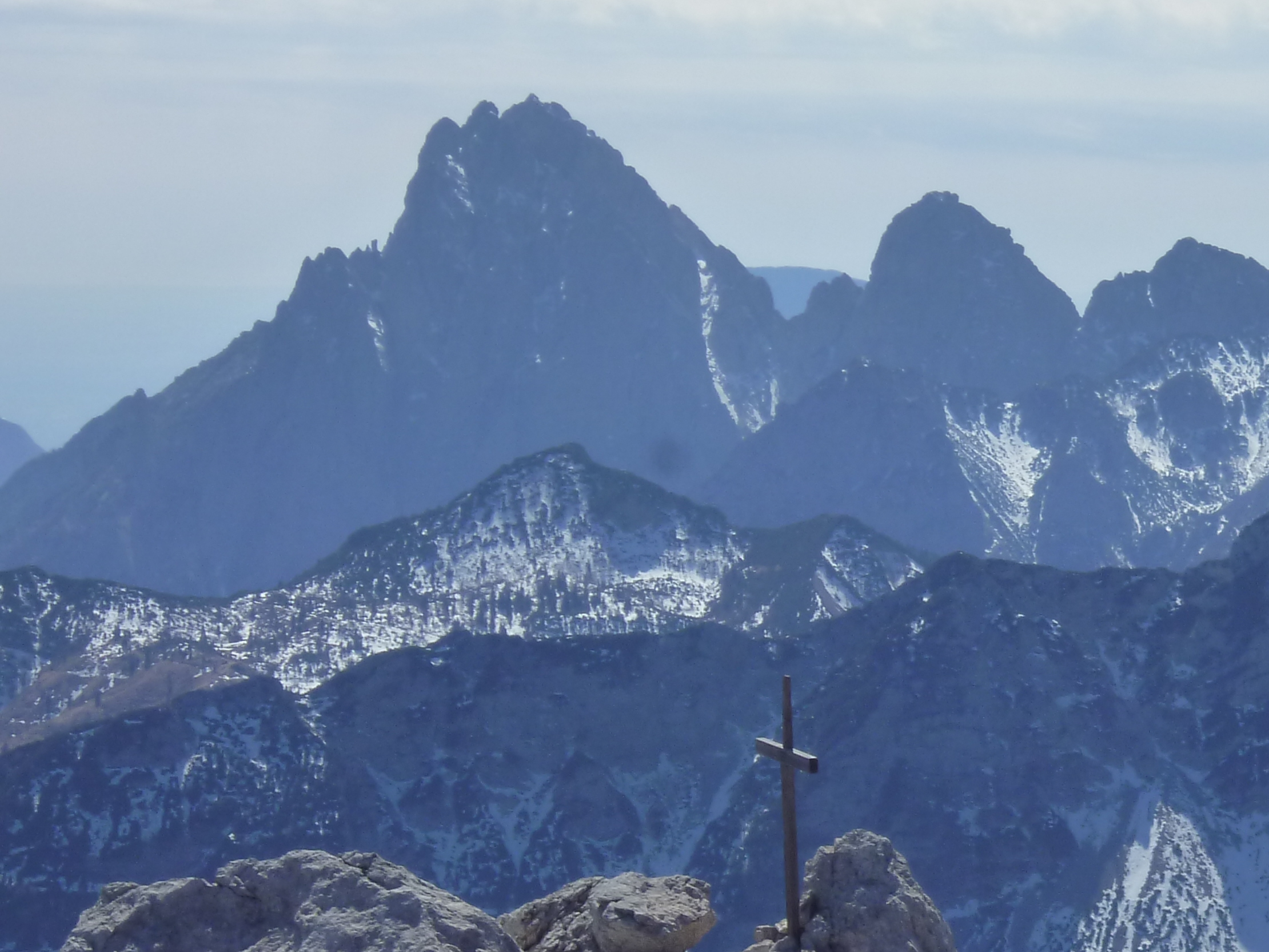 Creta Grauzaria, view from Zottach Kopf